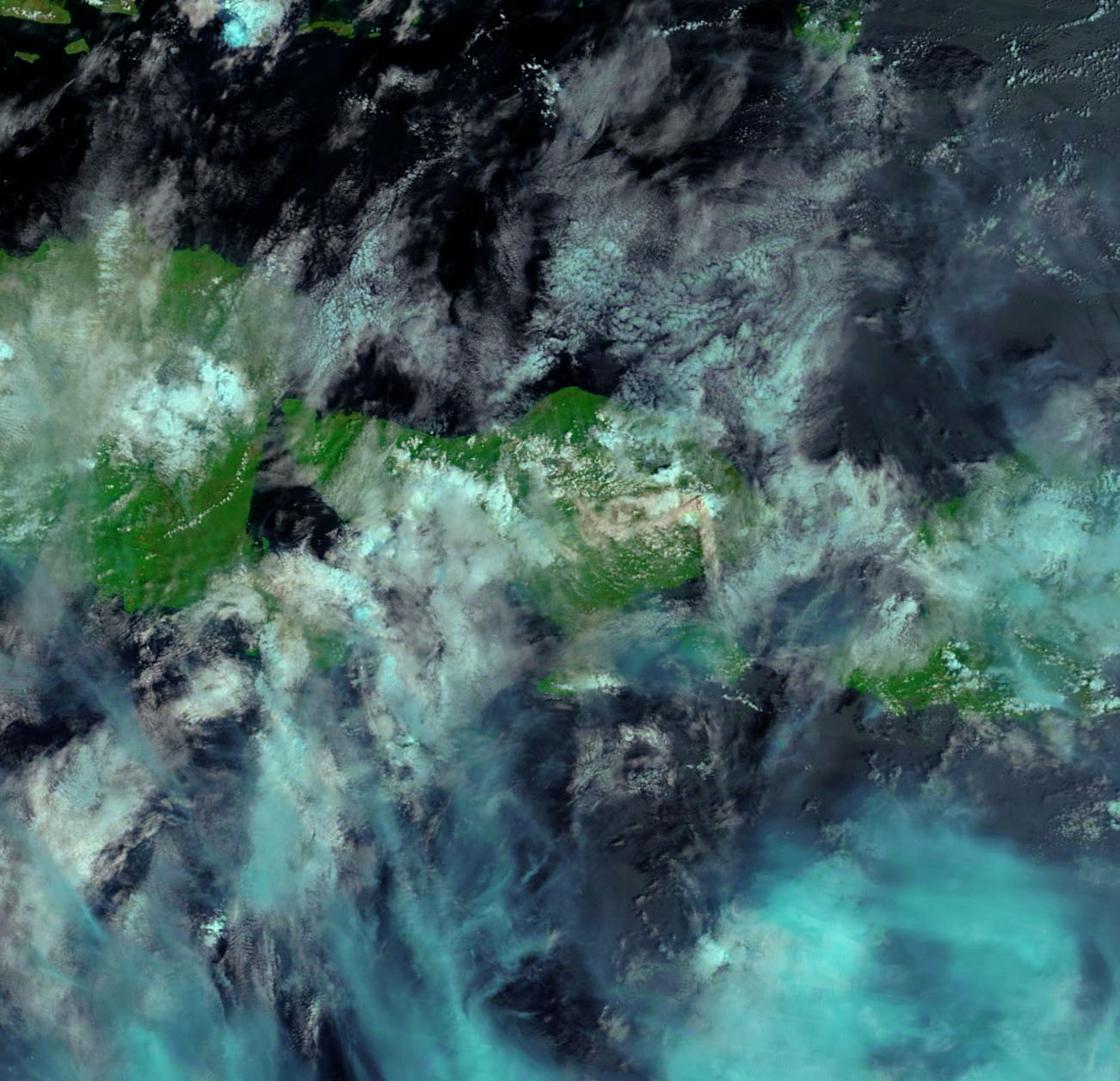 Mount Agung continues to erupt, ejecting a volcanic plume of gas and ash over the Indonesian island of Bali. The ash is visible amidst midday clouds in this false-color image, acquired on November 29, 2017, by the Moderate Resolution Imaging Spectroradiometer (MODIS) on NASA’s Terra satellite. The image uses a combination of shortwave infrared light and natural color, making it easier to differentiate between ash, clouds, and forest. The plume appears to rise from two vents in the volcano’s crater. Just as the plume’s sulfur dioxide levels can vary, so too can the amount of steam and ash. A whiter plume indicates the presence of more steam, while a darker plume indicates more ash. Caption by Kathryn Hansen, NASA.